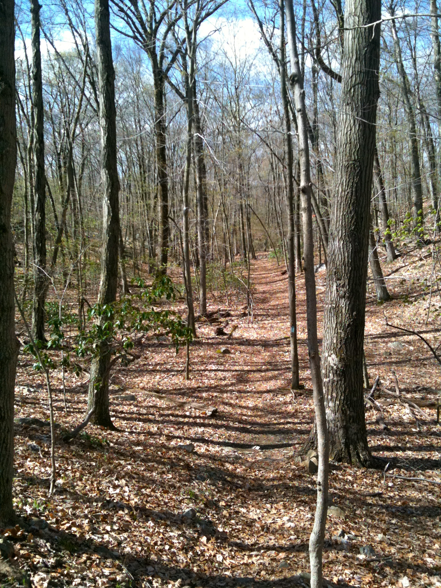 Aspetuck Valley Trail. Blue-Blazed CFPA foot path in Connecticut Centennial Watershed State Forest which connects to Huntington State Park at the northern terminus and which follows the Aspetuck River from Newtown, CT through Redding and Easton, CT. Aspetuck Valley Trail path through woods. near Towne End Road. Blue-Blazed CFPA foot path in Connecticut Centennial Watershed State Forest which connects to Huntington State Park at the northern terminus and which follows the Aspetuck River from Newtown, CT through Redding and Easton, CT.